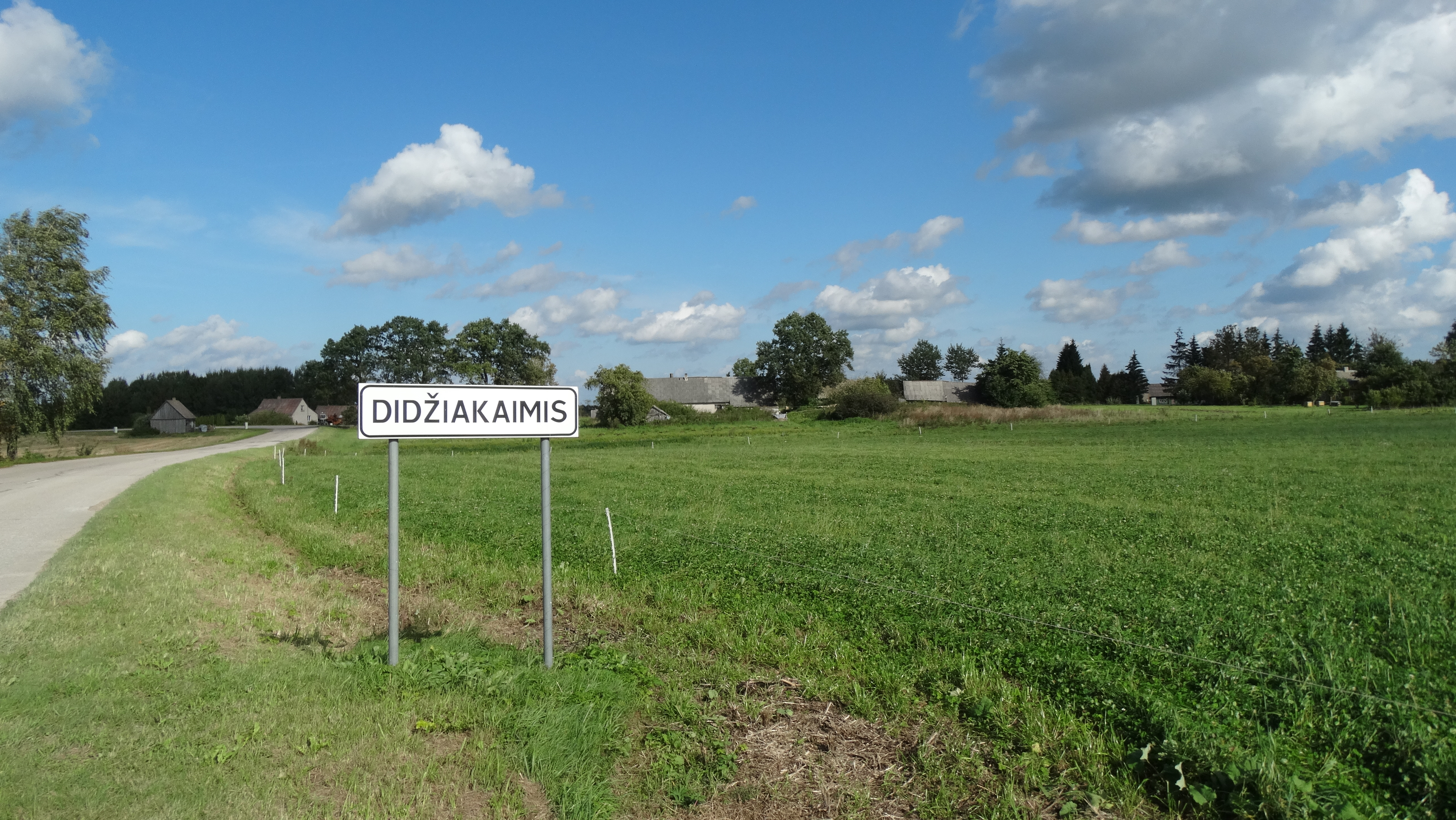 Didžiakaimis, Anykščiai District, Lithuania